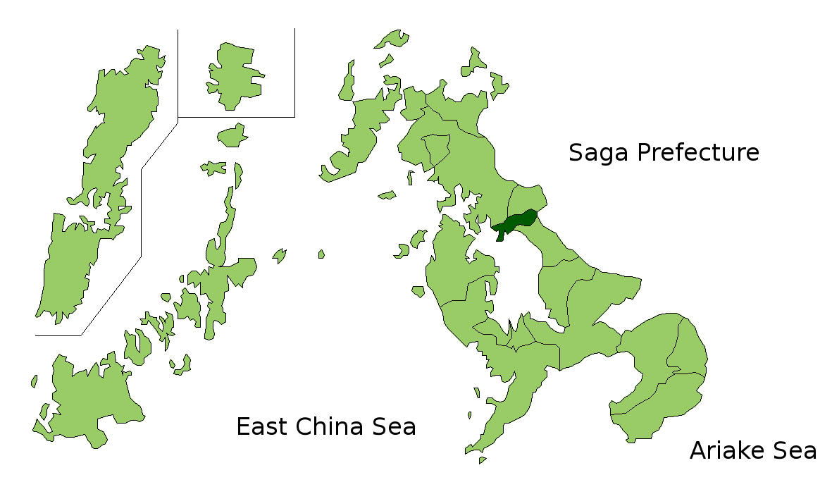 The location of Kawatana in Nagasaki Prefectuur, Japan